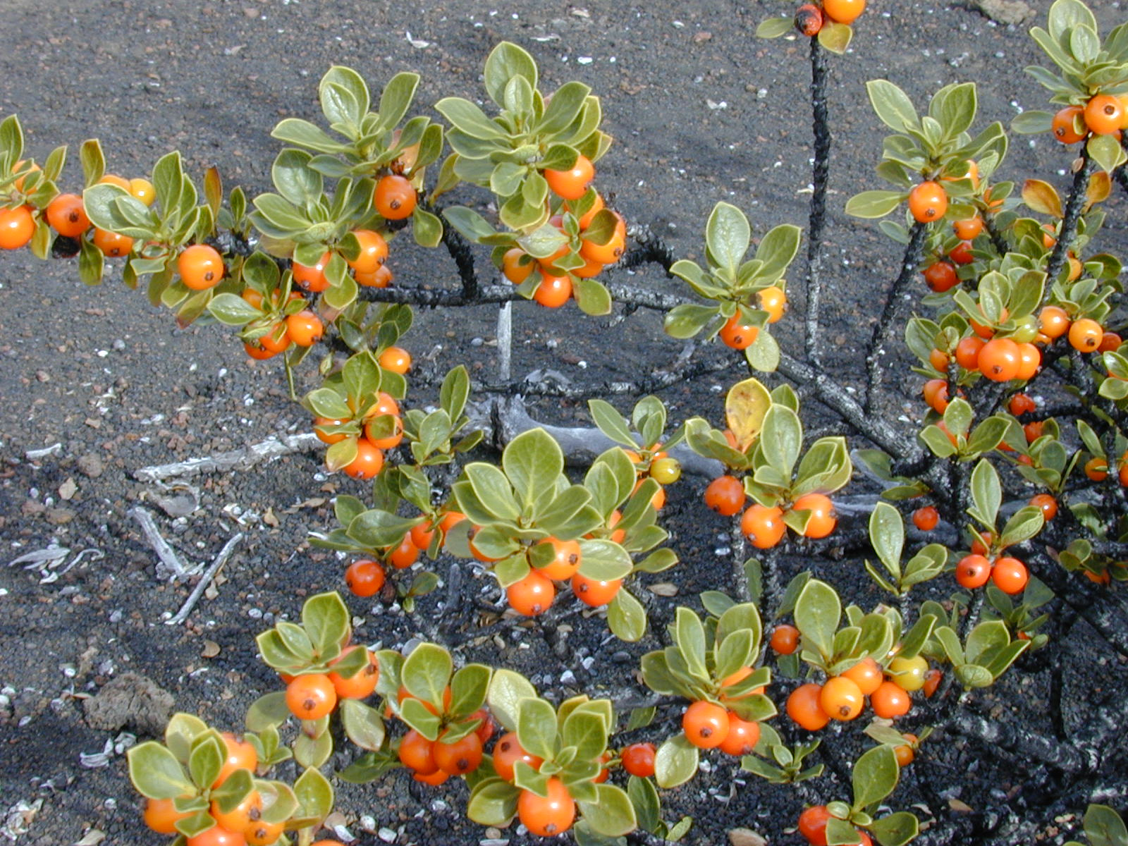 Coprosma montana (fruit and leaves). Location: Maui, red flow Haleakala National Park